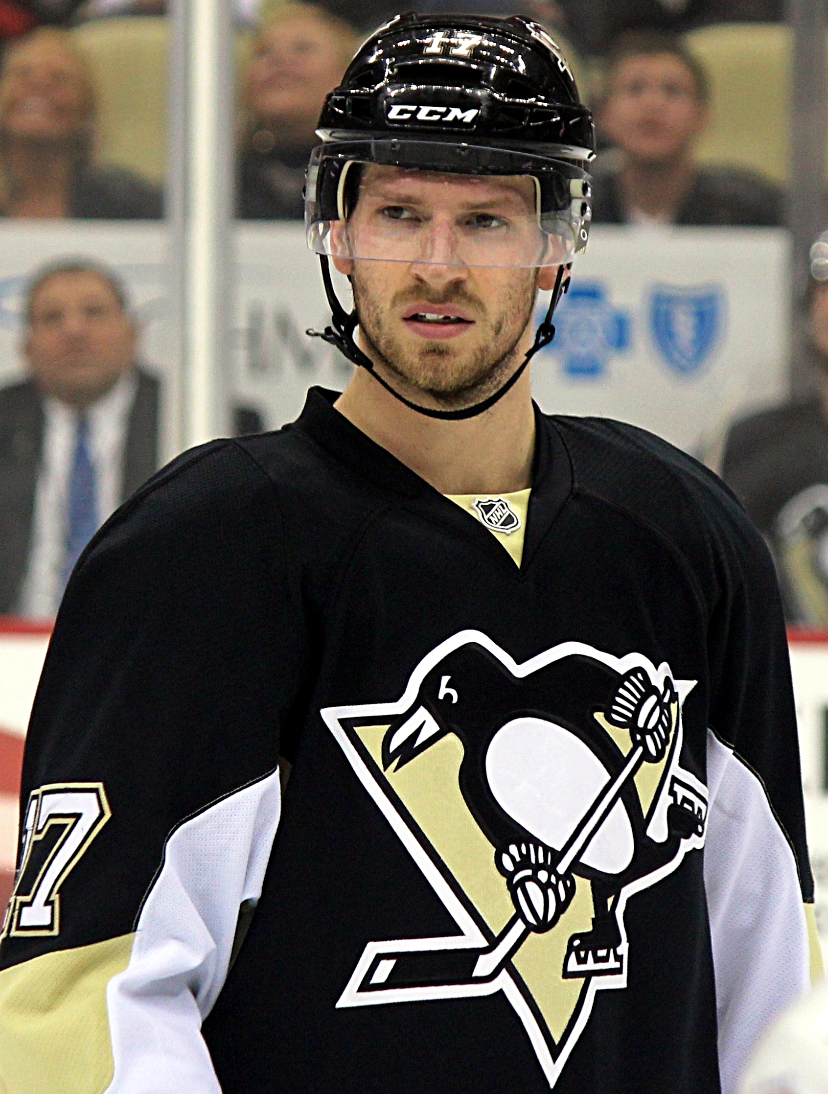 Pittsburgh Penguins forward Blake Comeau during a game against the Calgary Flames, December 12, 2014, at Consol Energy Center in Pittsburgh, PA.